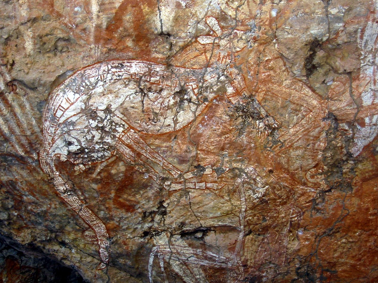 Aboriginal Rock Art, Anbangbang Rock Shelter, Kakadu National Park, Australia